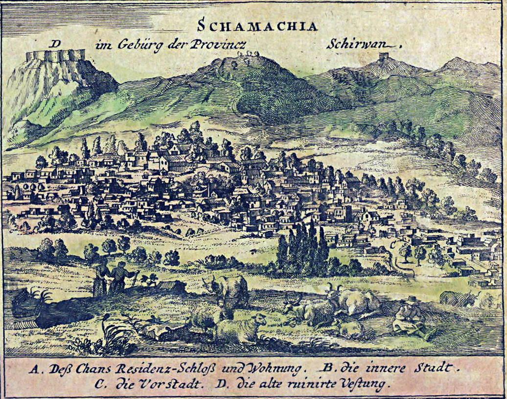 Gravure "Schamachia. im Gebürg der Provincz Schirwan"